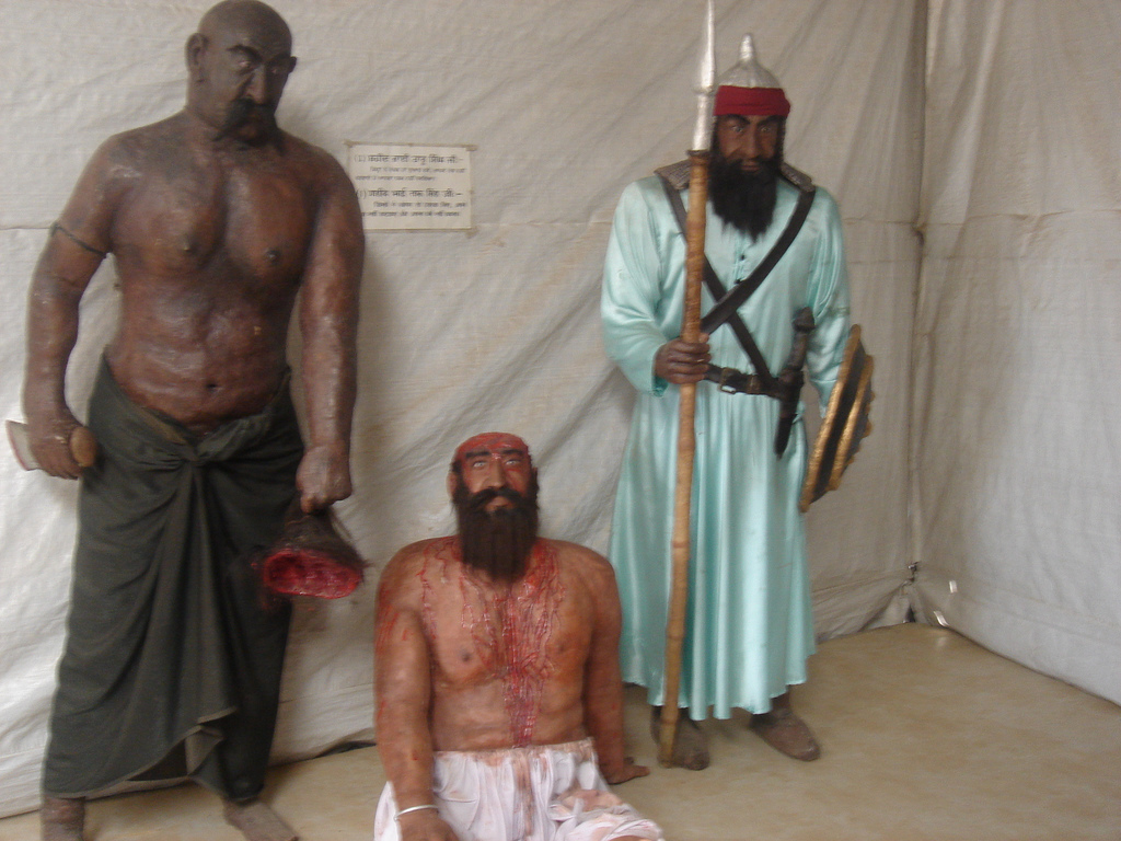 This image was shot by me in a Sikh History museum.